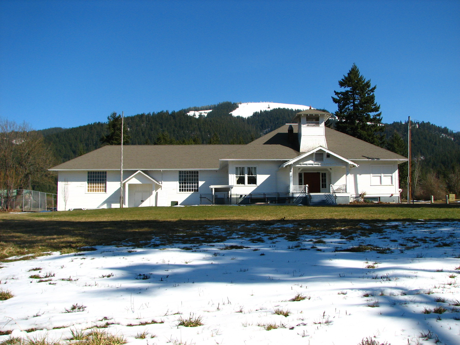 The historic Mount Hood School House (built 1914), located at the intersection of Highway 35 and Cooper Spur Road in the community of Mount Hood, Oregon, United States, is listed on the US National Register of Historic Places. No longer in regular use as a school, it continues to serve as a community center.